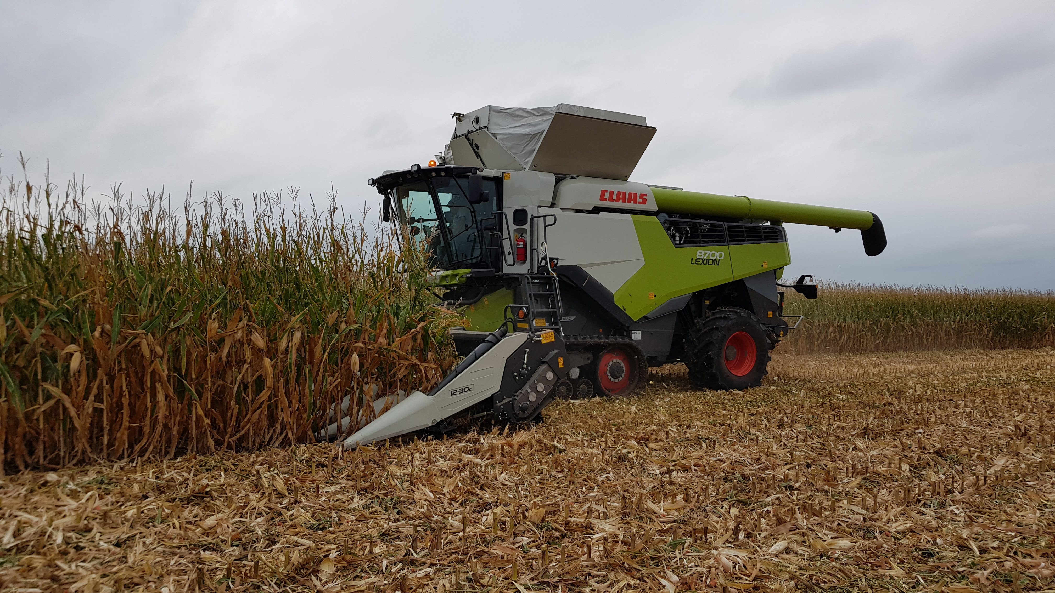 CLAAS LEXION combine in corn